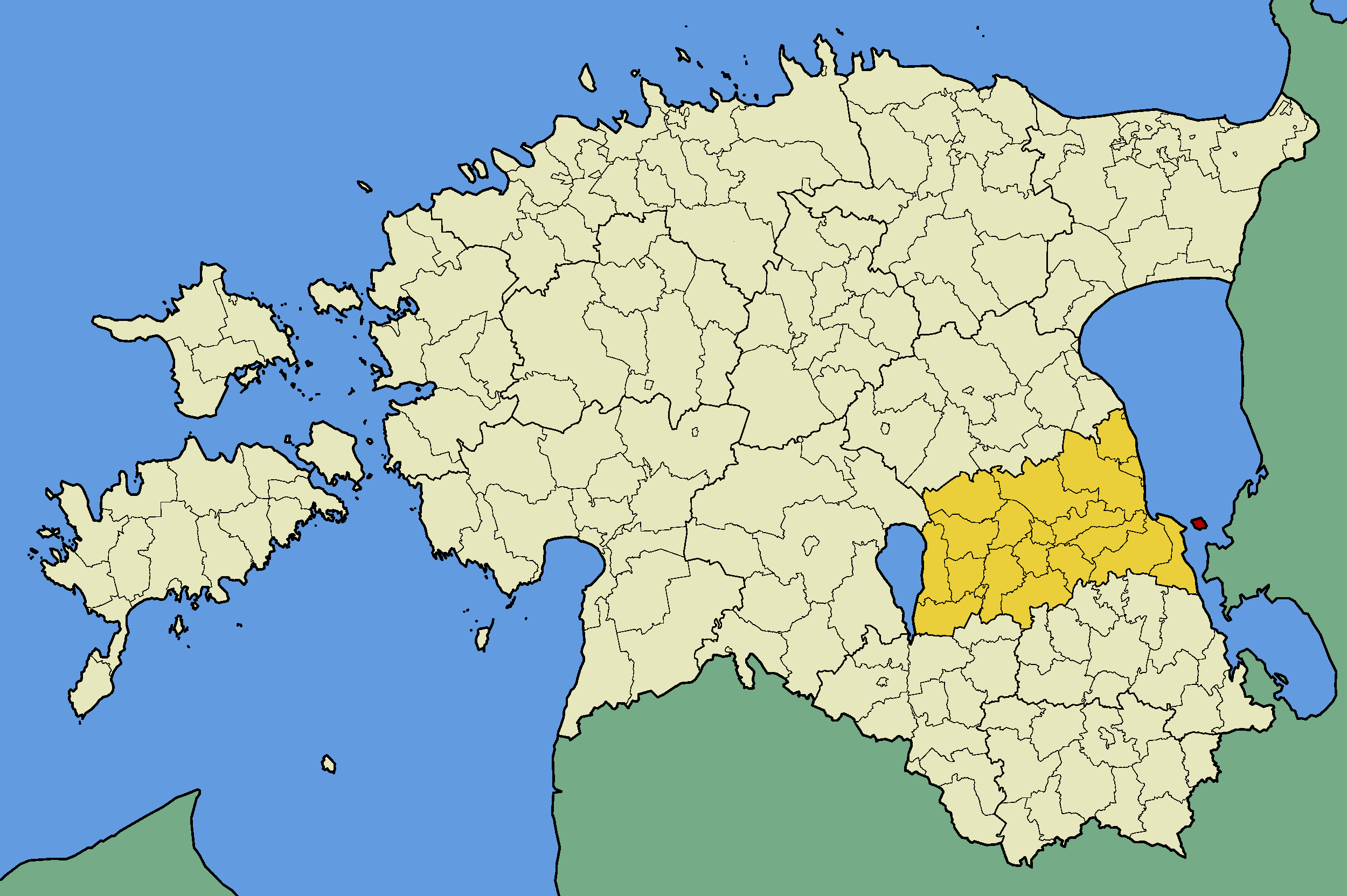 Map of Estonia with borders of municipalities (parishes). Tartu county and Piirissaare municipality emphasized.